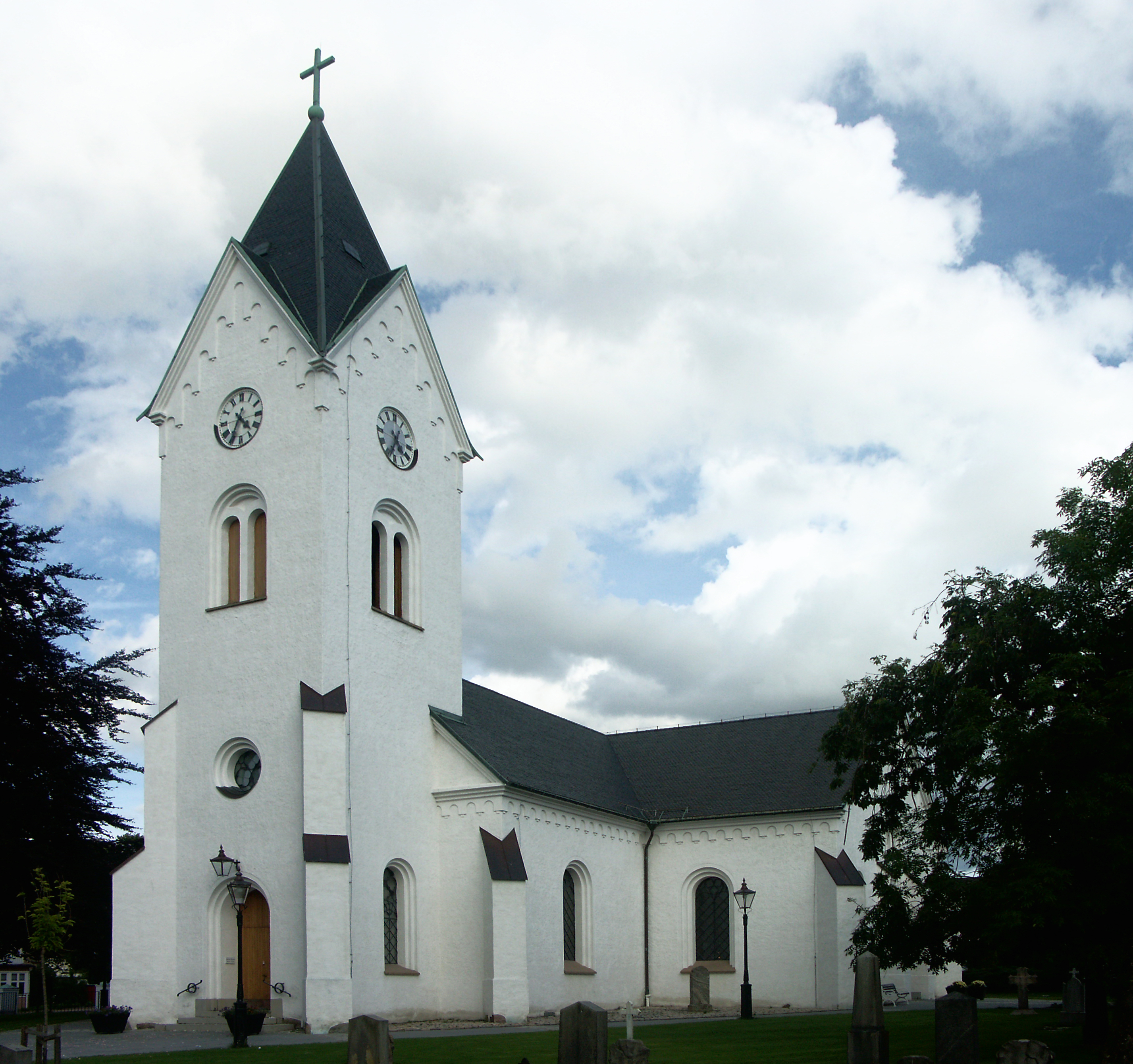 Ängelholms kyrka (Church of Ängelholm).